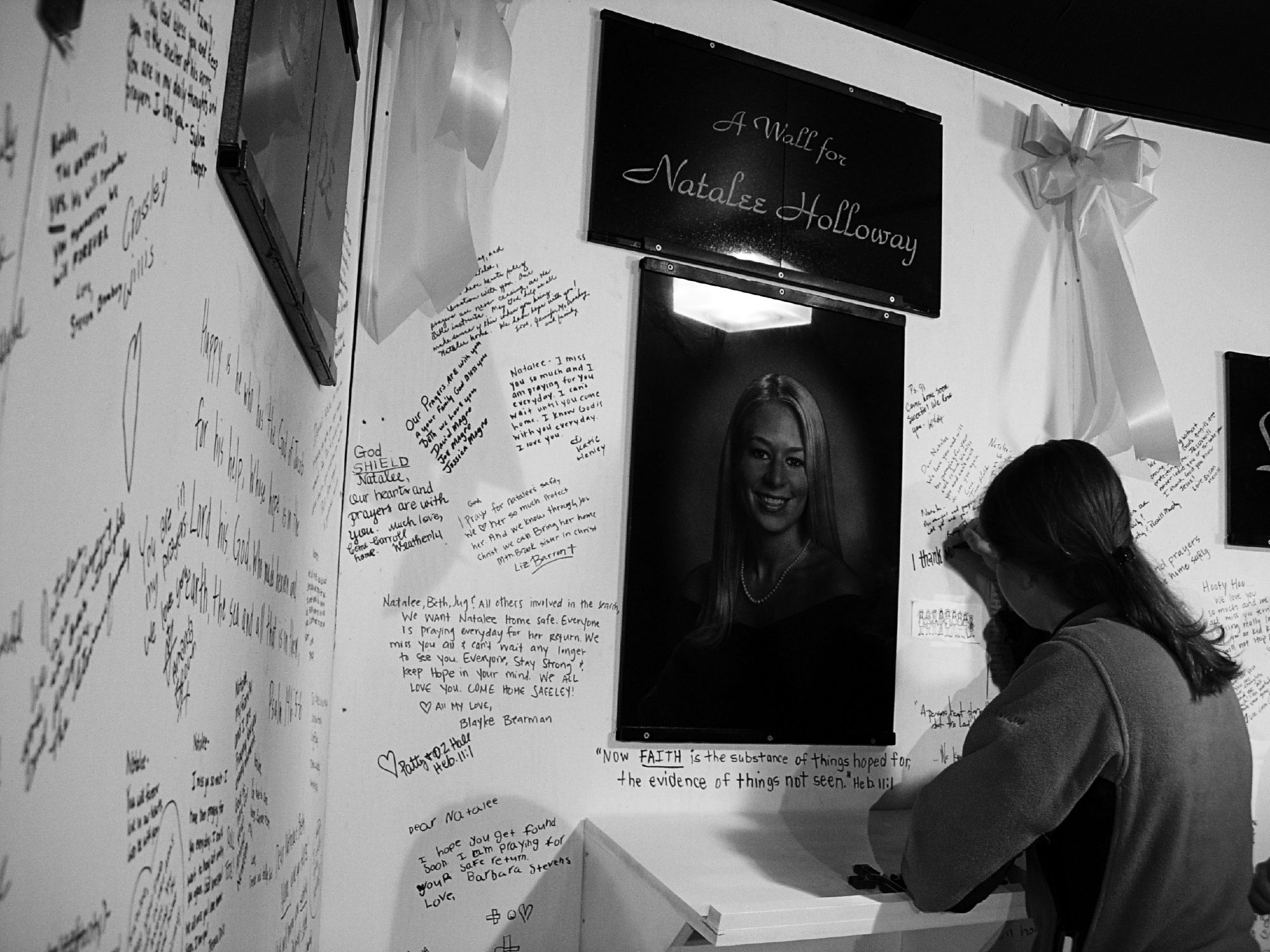 Young female signing a memorial wall for Natalee Holloway, less than two weeks after her disappearance.